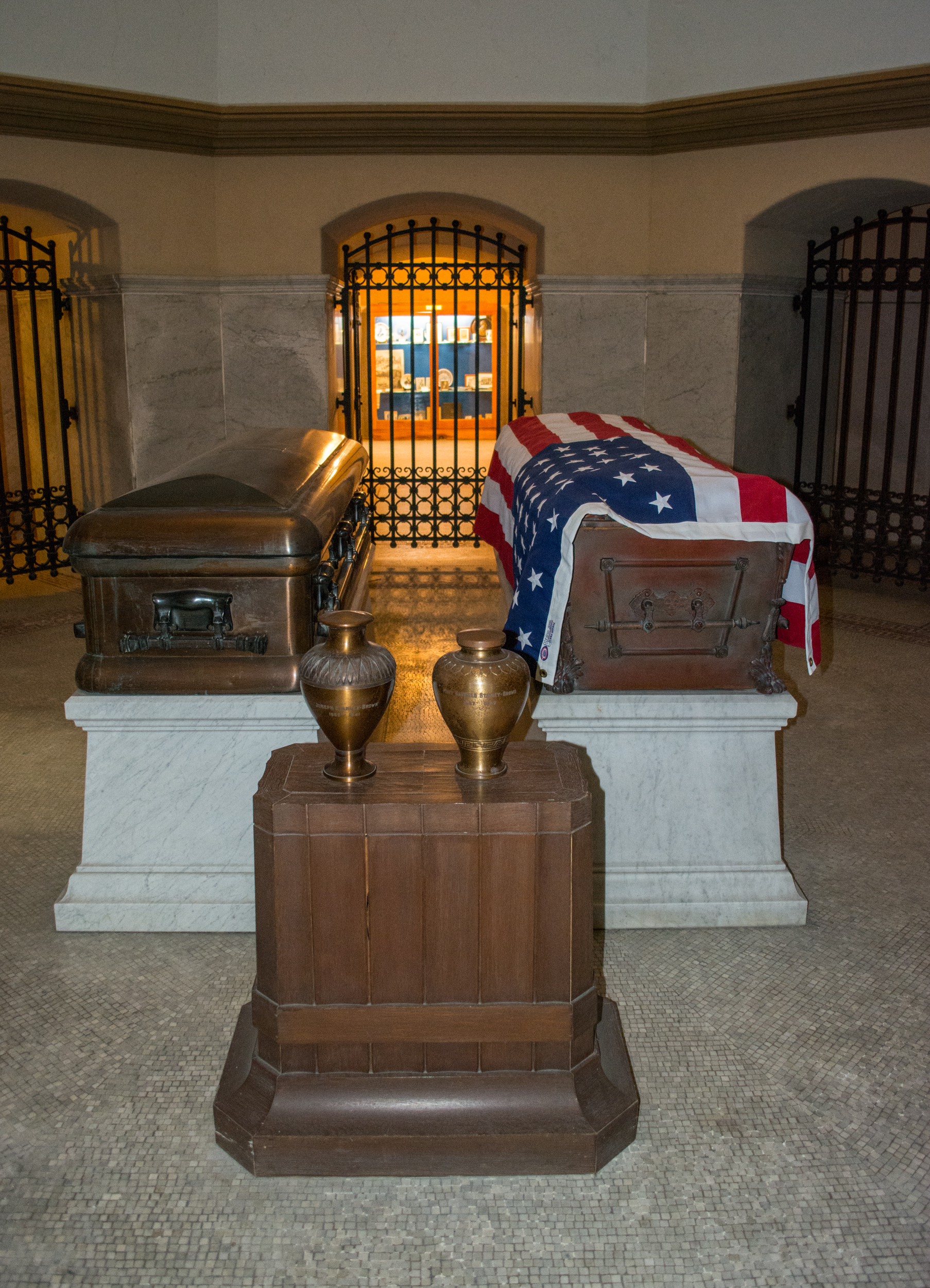 E view 02 of the coffins of James and Lucretia Garfield - Garfield Monument - Lake View Cemetery - 2015-04-04